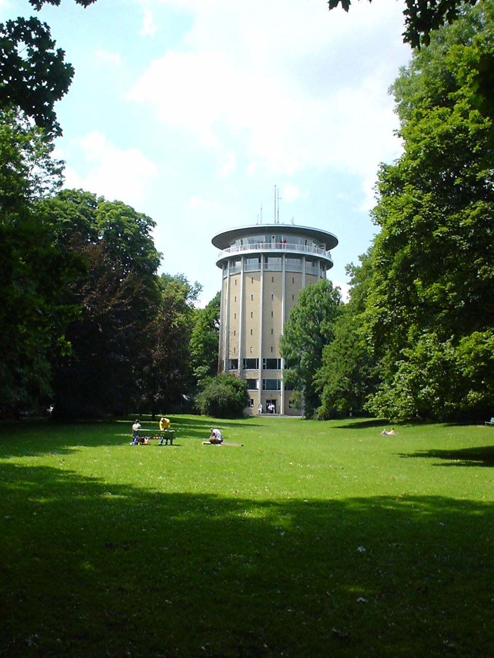 Water tower Belvedere on the Lousberg hill, Aachen, Germany. Photo taken by User:Ahoerstemeier on July 10 2005.